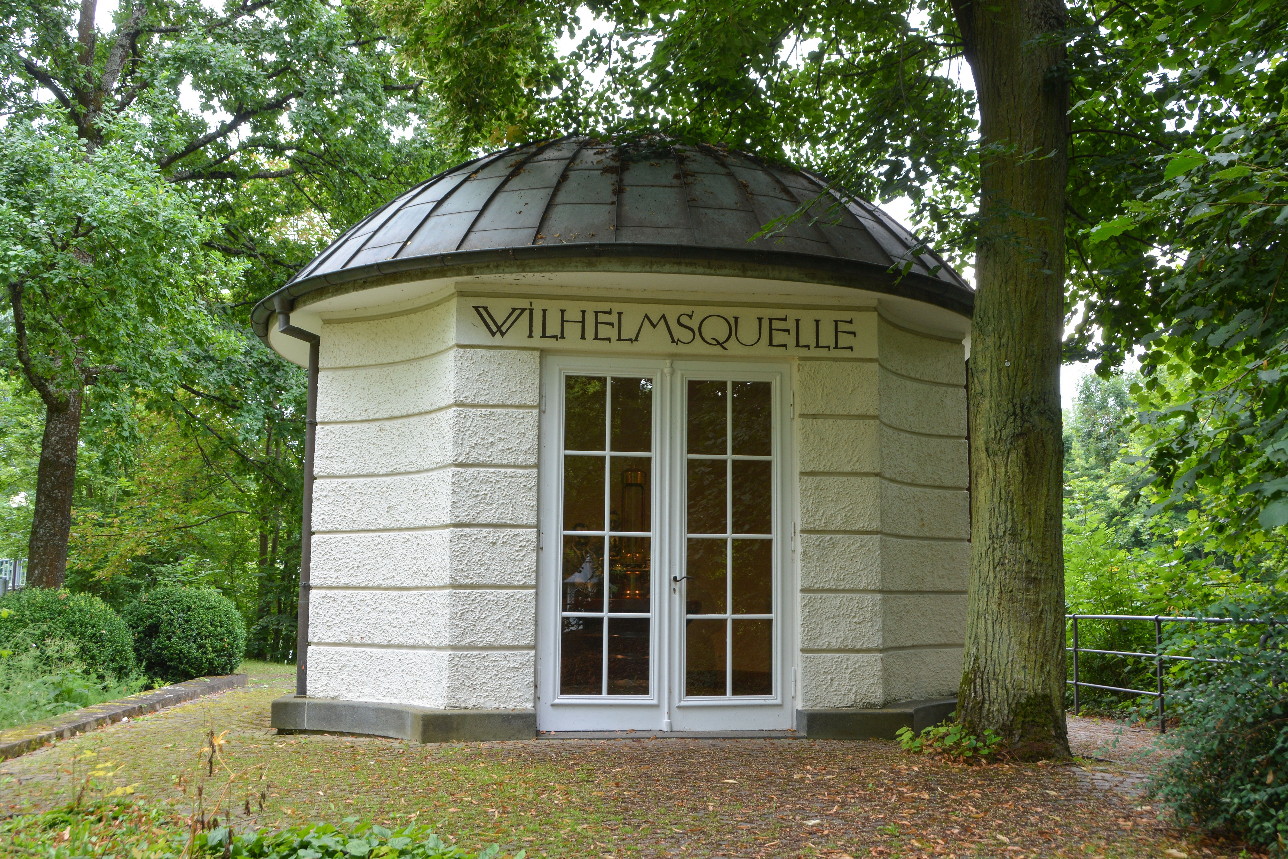 William's fountain, Bad Mergentheim, Germany